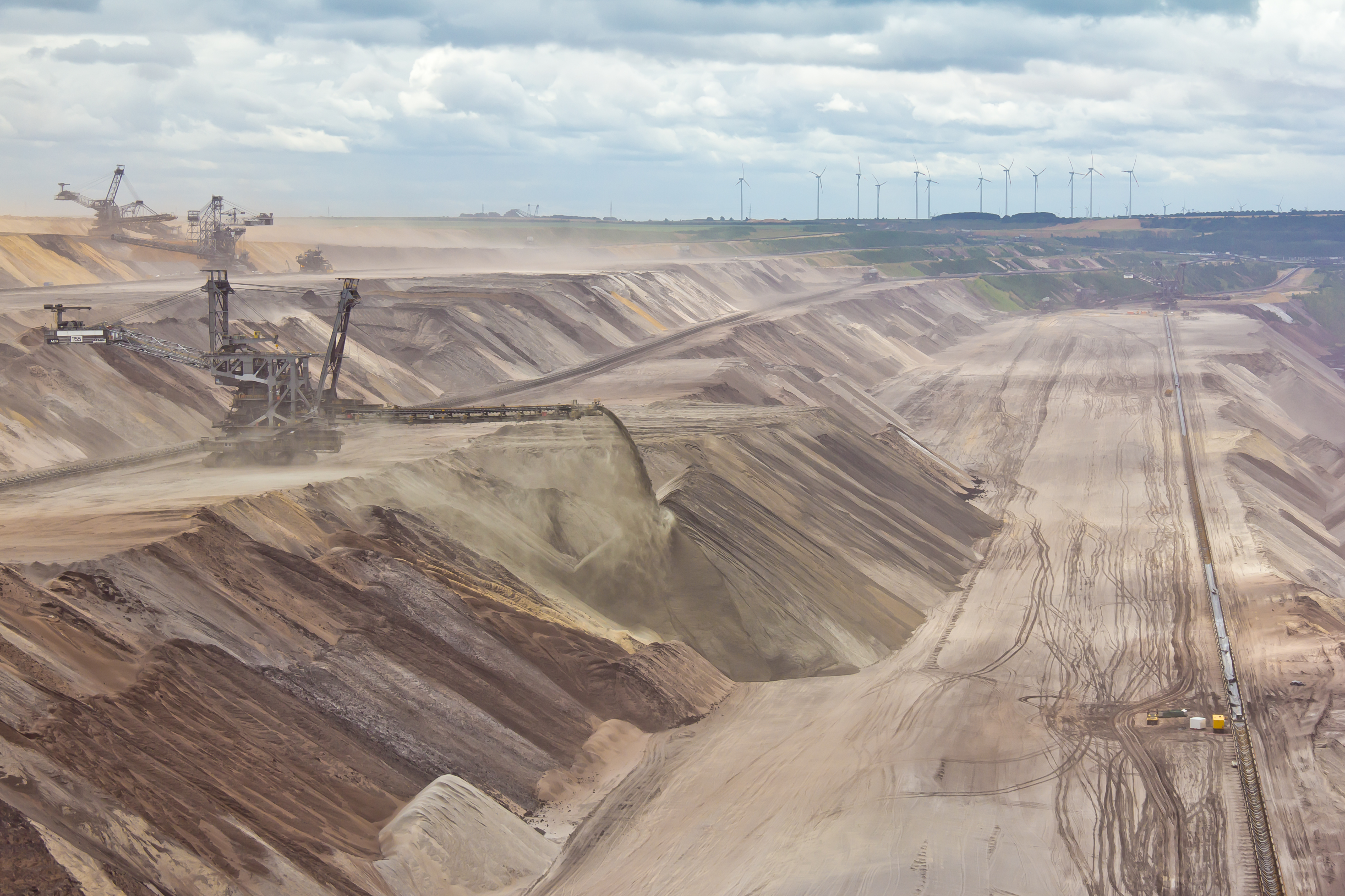 Stacker 755 at work in Garzweiler surface mine